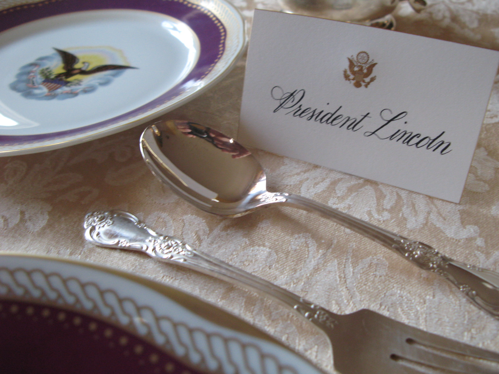 This place setting is my own recreation of a place setting used by President Lincoln using my own family heirlooms and authentically-recreated White House china used during the administration of President Abraham Lincoln. As background, Mary Todd Lincoln was renowned for her enjoyment of shopping, thus she selected the Lincoln White House china shortly after her husband's inauguration. An elegant French design, the Lincoln china combines the American eagle with various decorations in a brilliant color called "solferino". This purple-red hue was invented by the French in 1859 and was very popular among the fashionable hosts of the Lincolns' day# President Barack Obama used this replica pieces during his inaugural luncheon on January 20, 2009# This particular set was created by the Woodmere China of New Castle, PA# I made the place card in Old English round or Copperplate hand using authentic White House place cards gilded and embossed in gold.